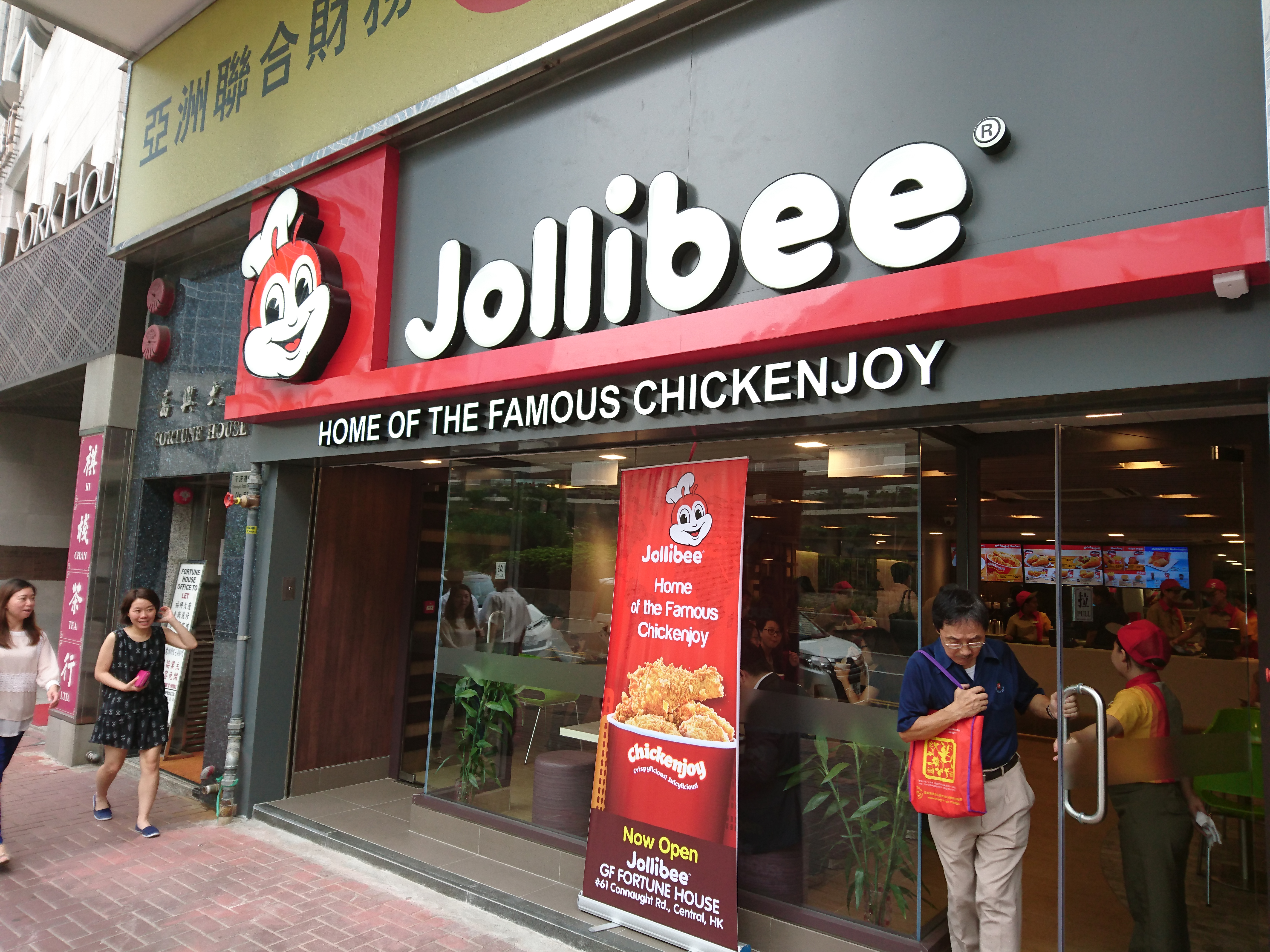 Central Jolibee New Branch